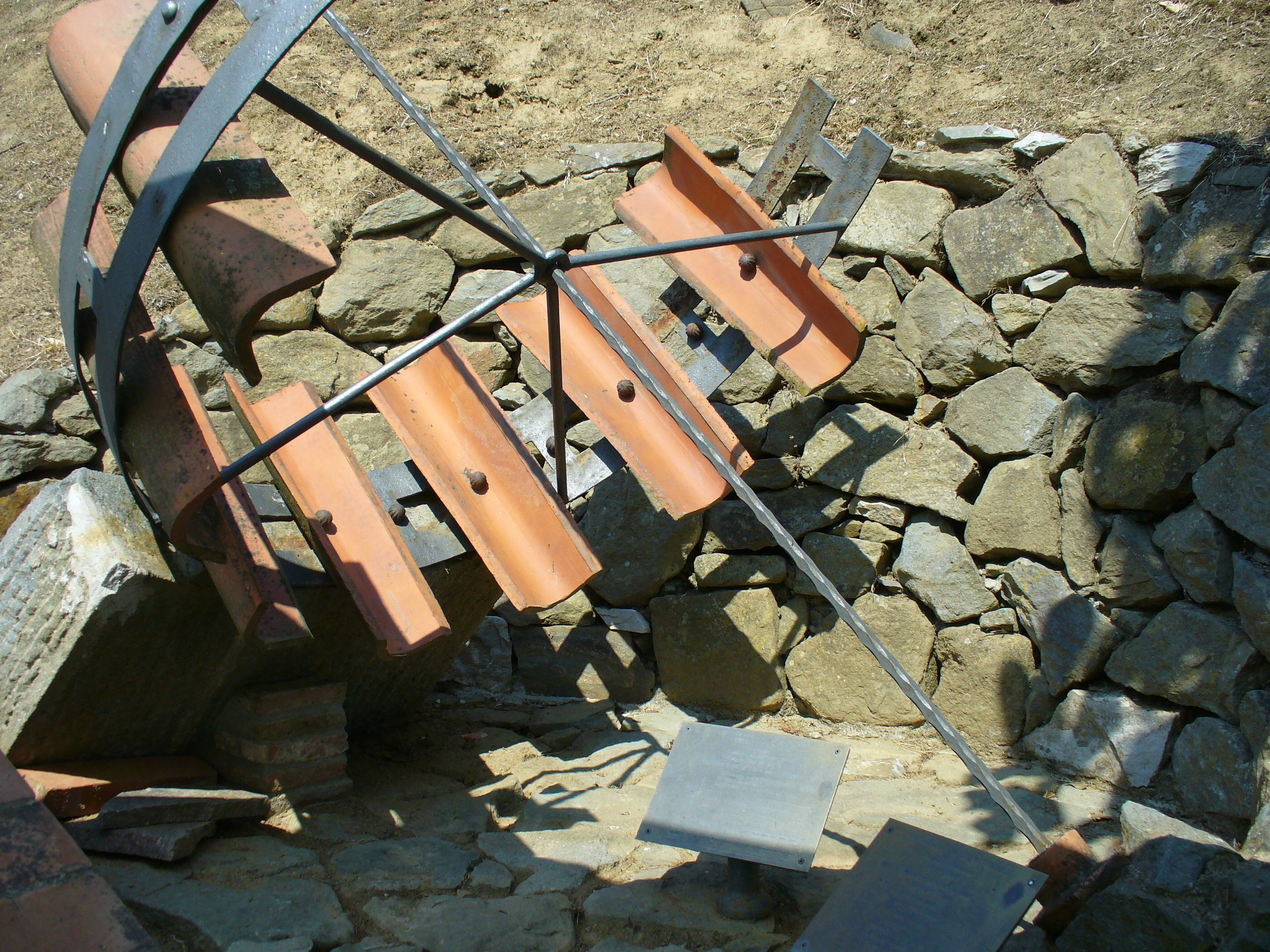 Porciano - Meridiana